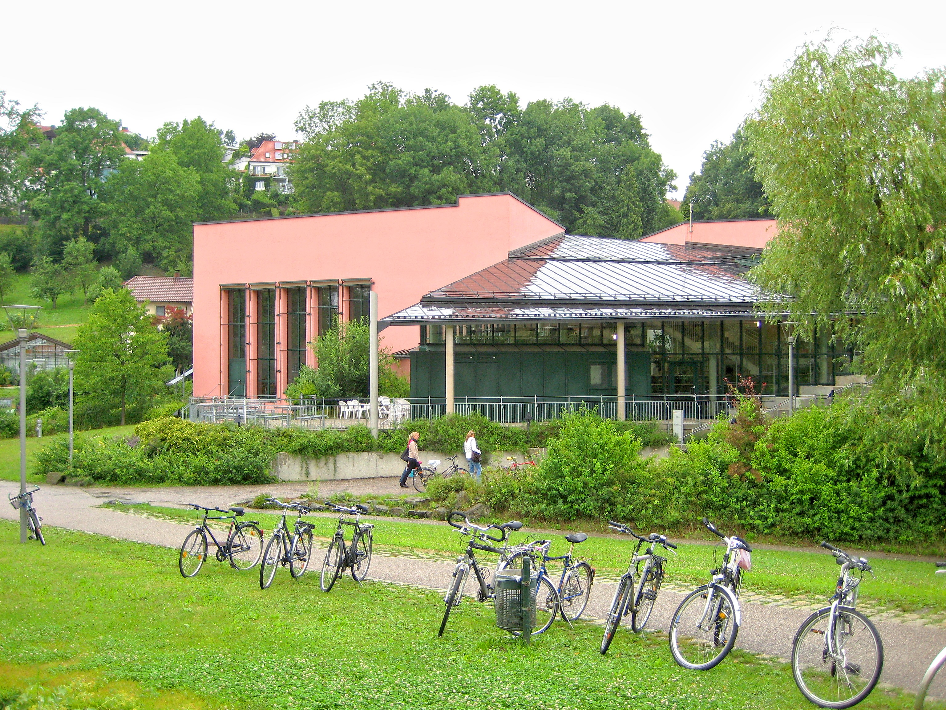 University of Passau